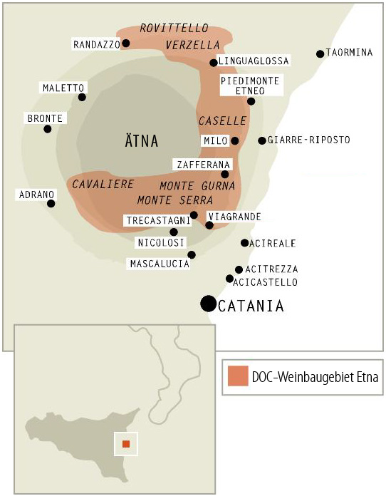 map of the Etna DOC territory